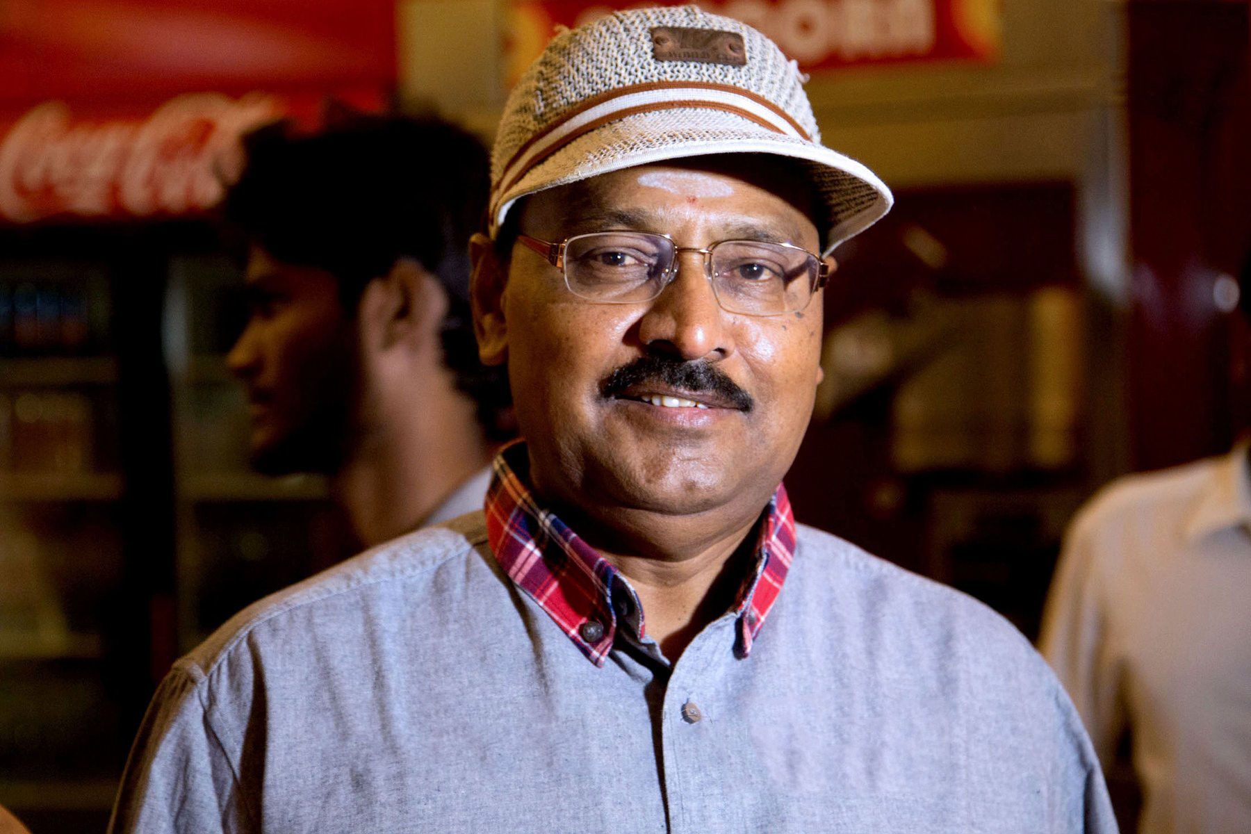 Actor Director K Bhagyaraj at the Sathuranga Vettai Audio Launch